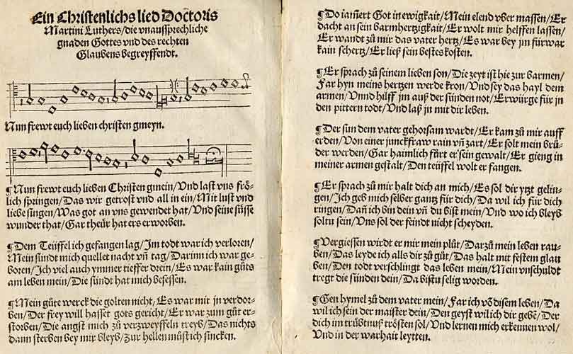 "Nun freut euch", a hymn by Martin Luther, in the Áchtliederbuch, the first Lutheran hymnal